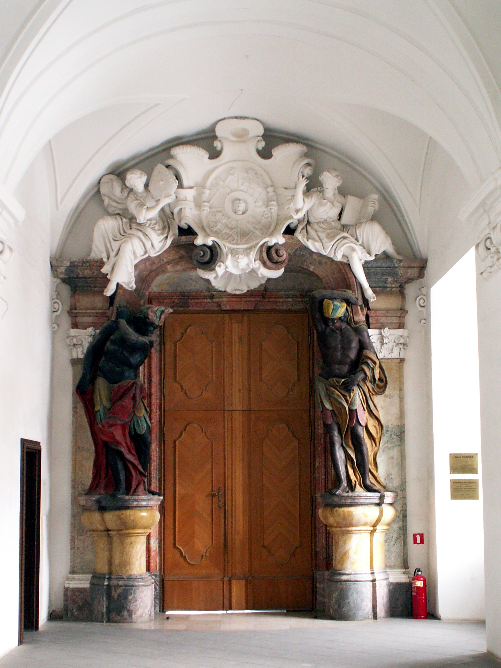 Door to the prince room